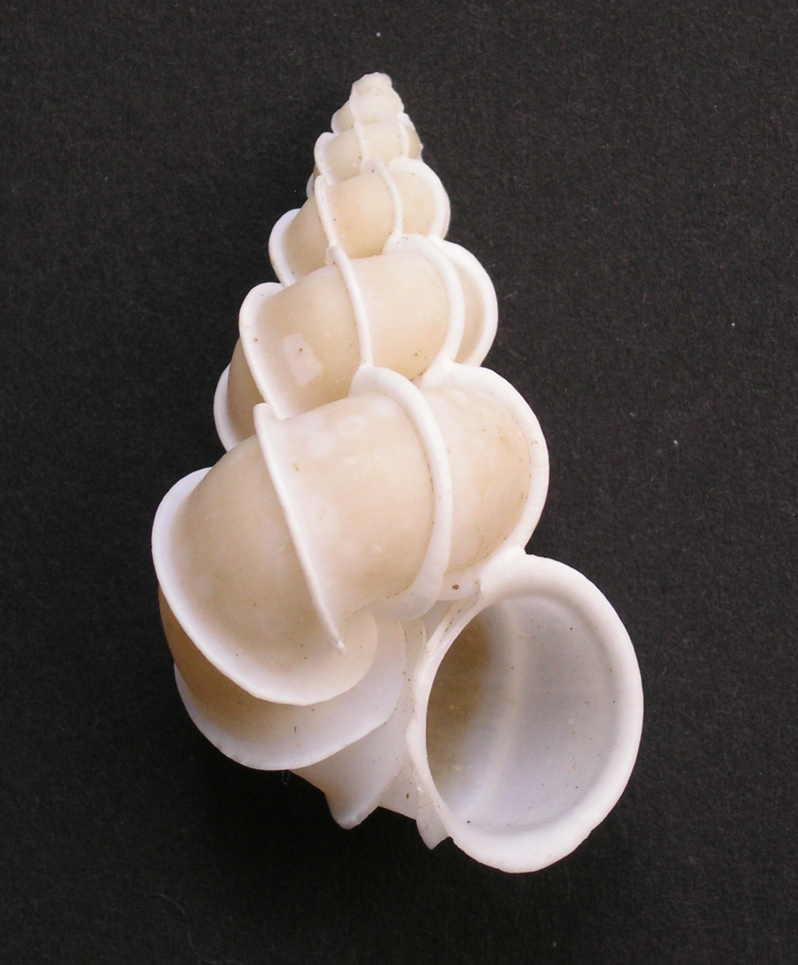 Epitonium scalare Licence: self-made photo, May 2005